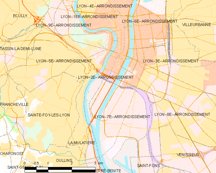 Map of French municipality